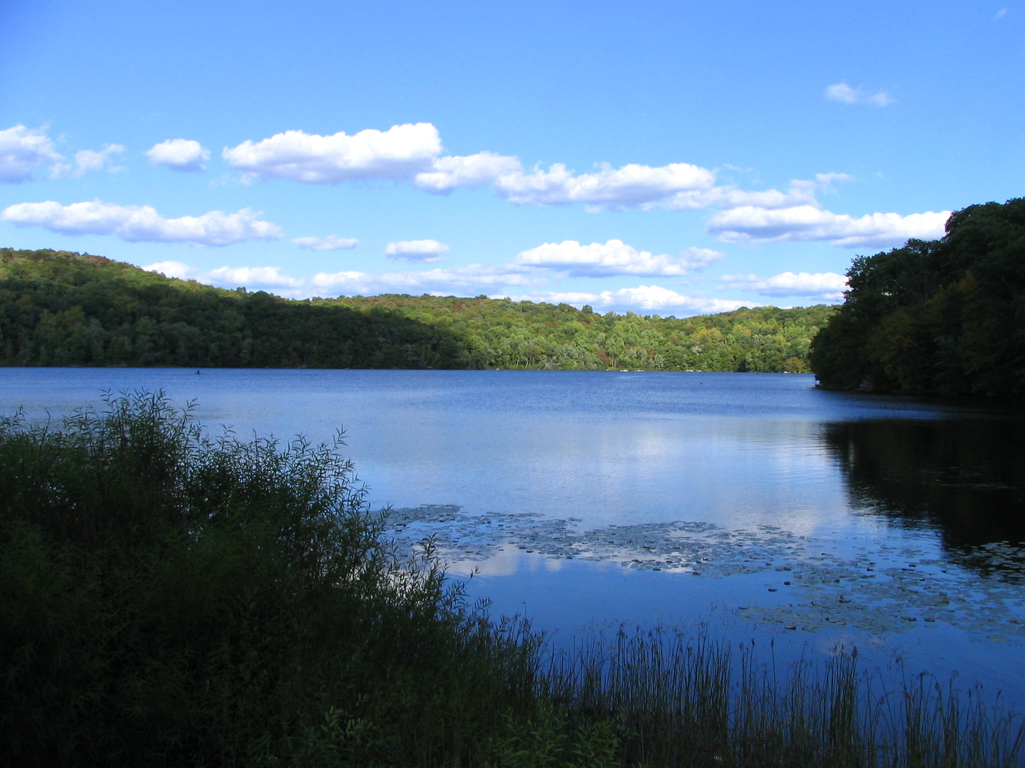 Shepherd Lake in Ringwood State Park, New Jersey, USA. 18 September, 2005.